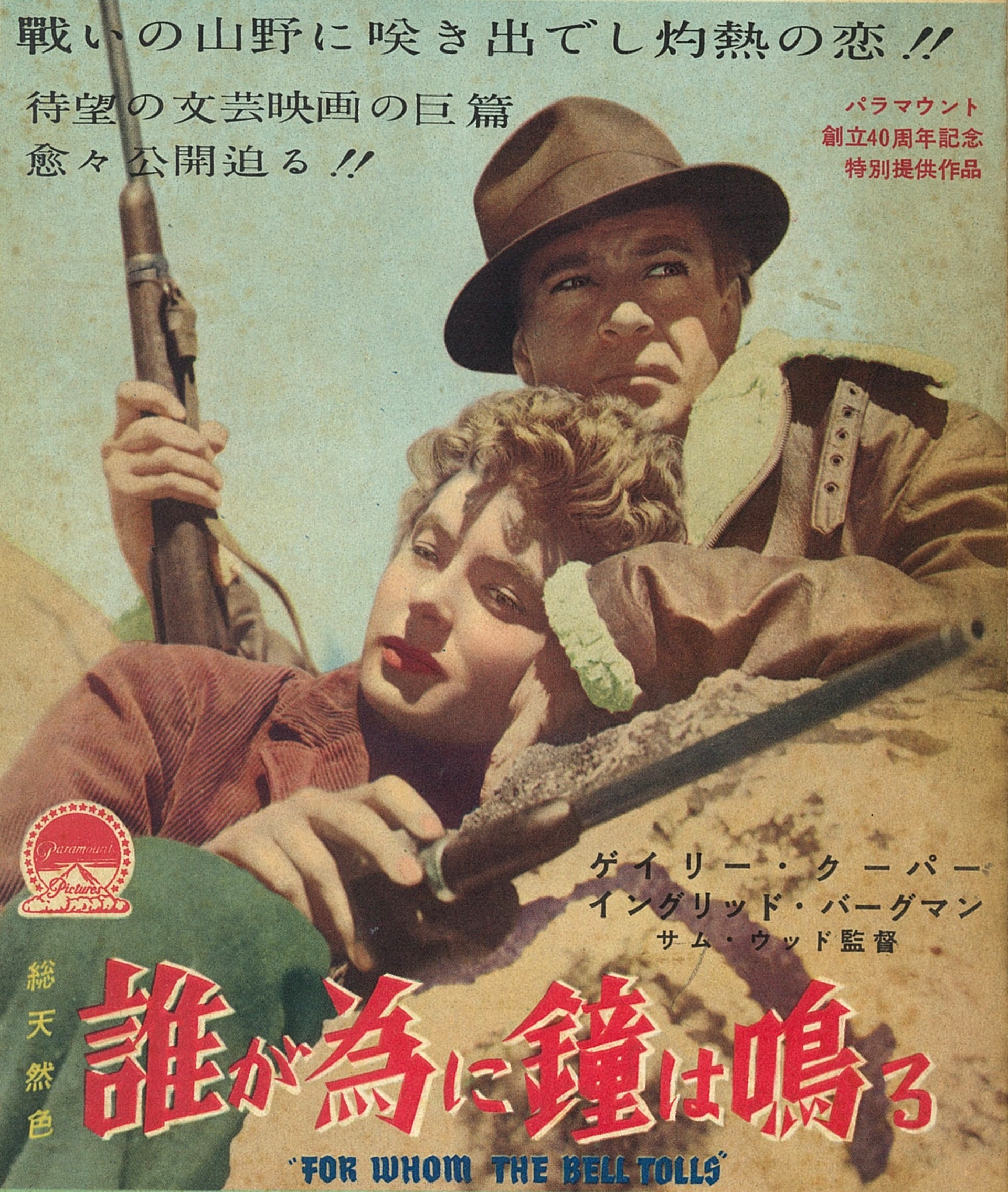 The poster for For Whom the Bell Tolls (1943) from Eiga no Tomo (November 1952).